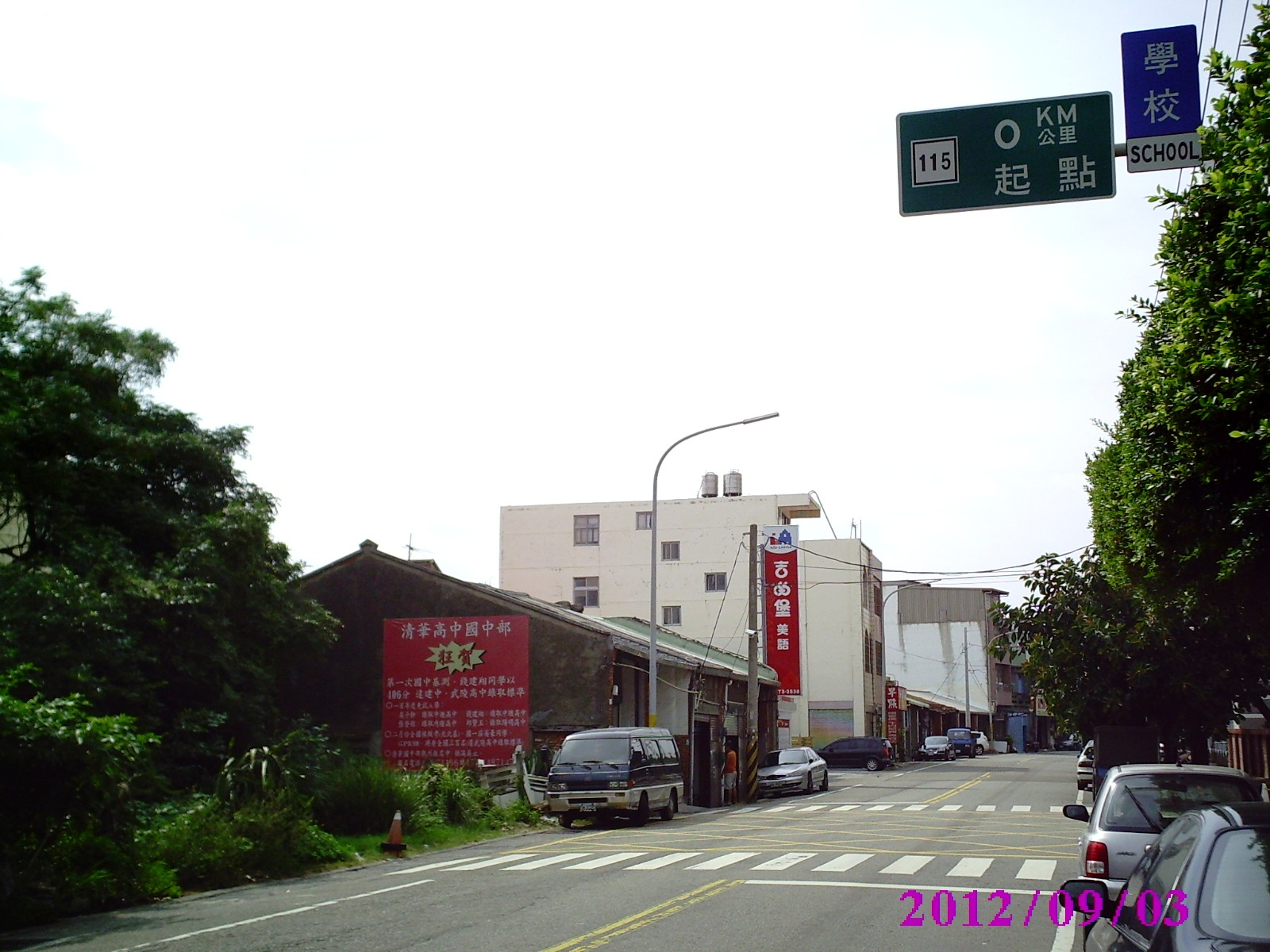 TW CHW115：starting point(Guanyin, Taoyuan, Taiwan)